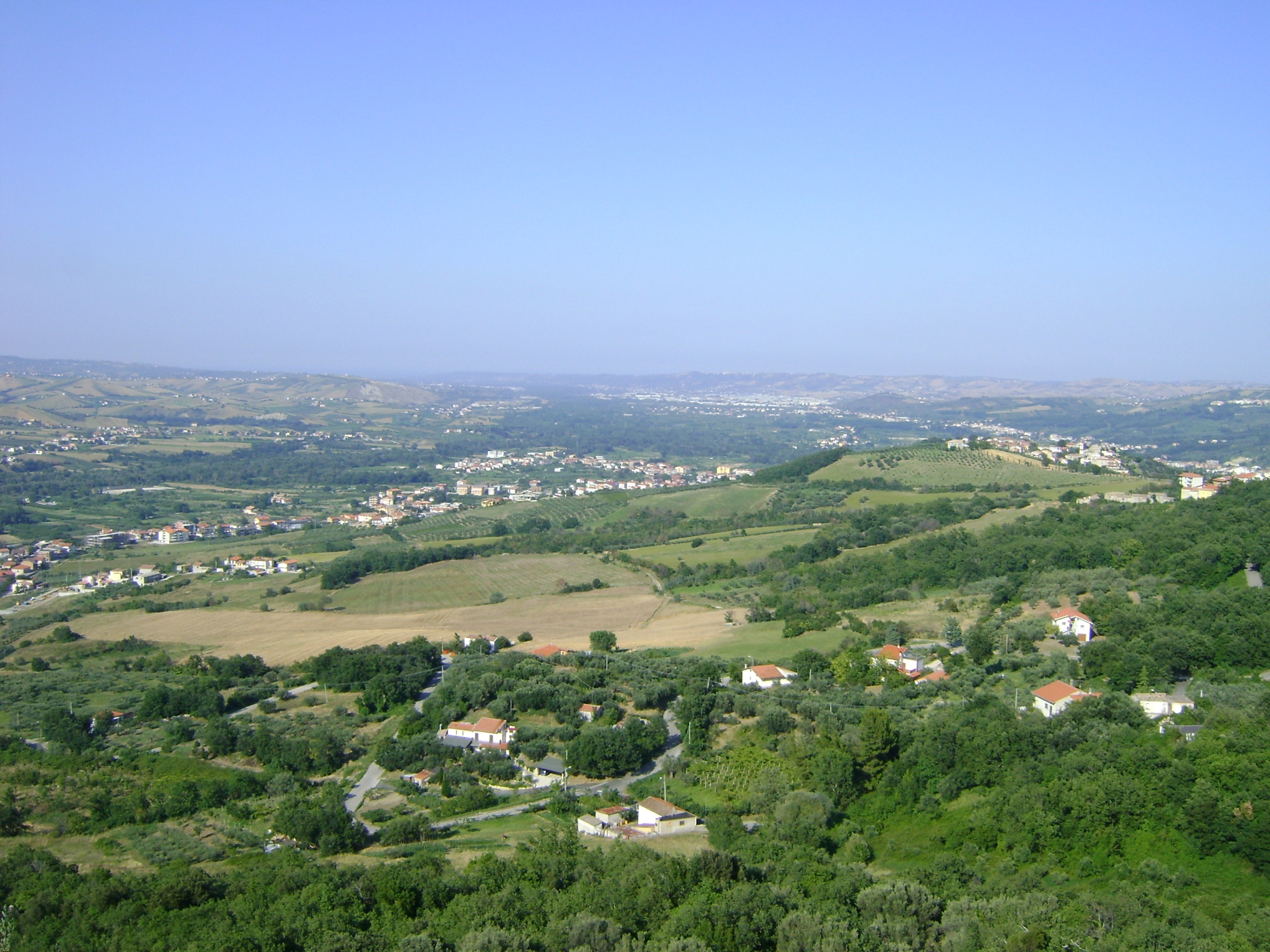 View of the valley of Sangro; to the center the point of union of the rivers Sangro and Aventino, under the necks of Altino